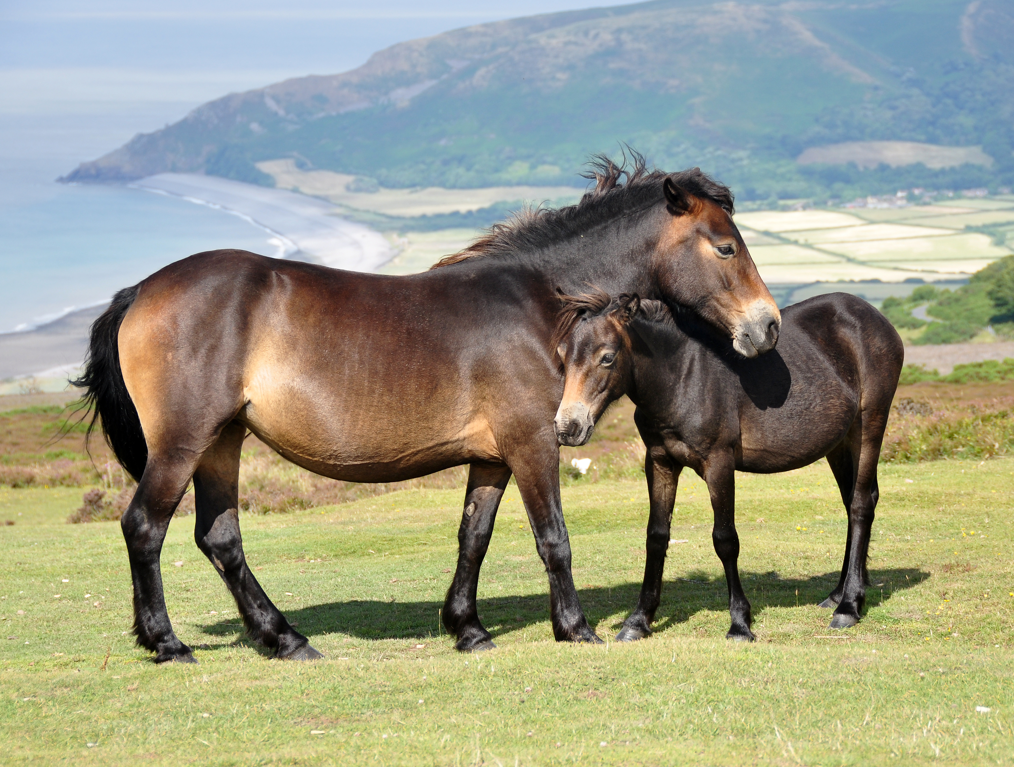 Exmoor pony mare and foal on Porlock Common. The vale of Porlock is visible behind them.